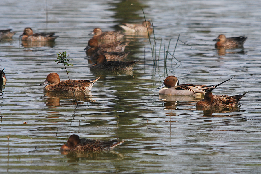 NorthernPintailDucks-Vedanthangal